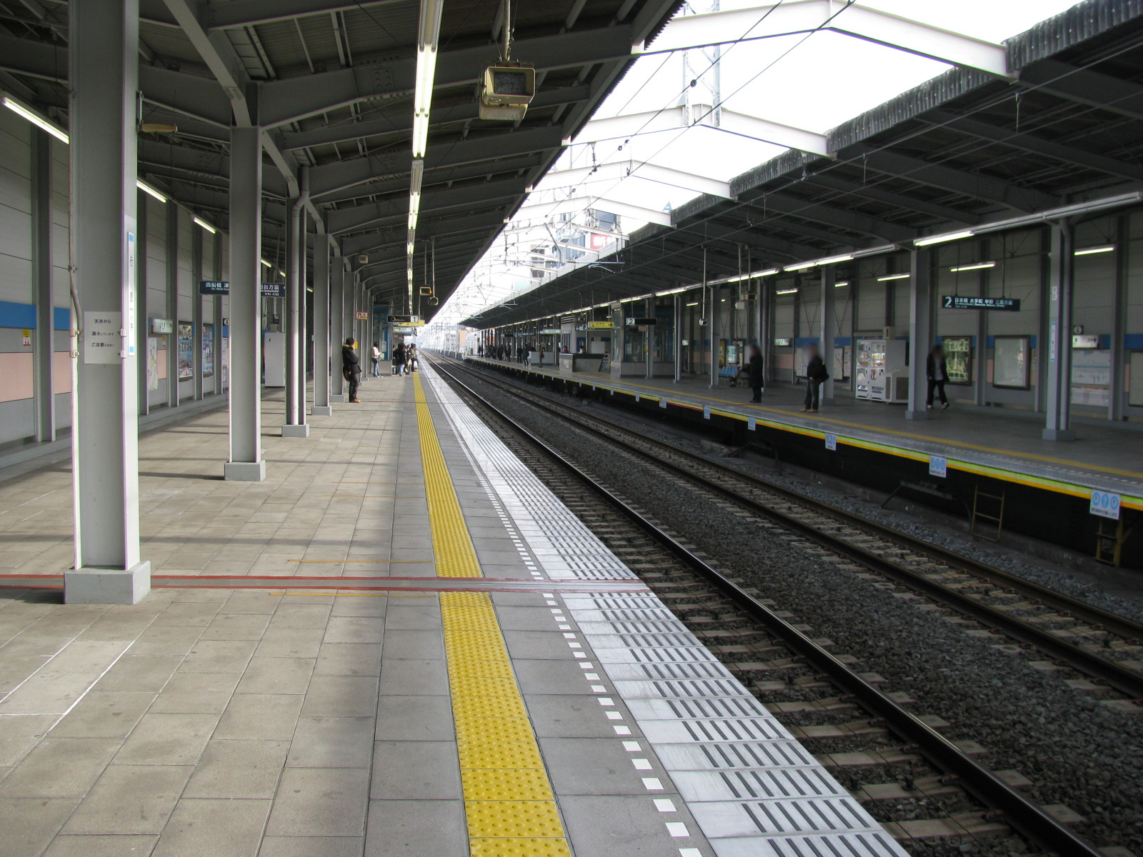 Gyotoku Station on Tokyo Metro Tozai-Line